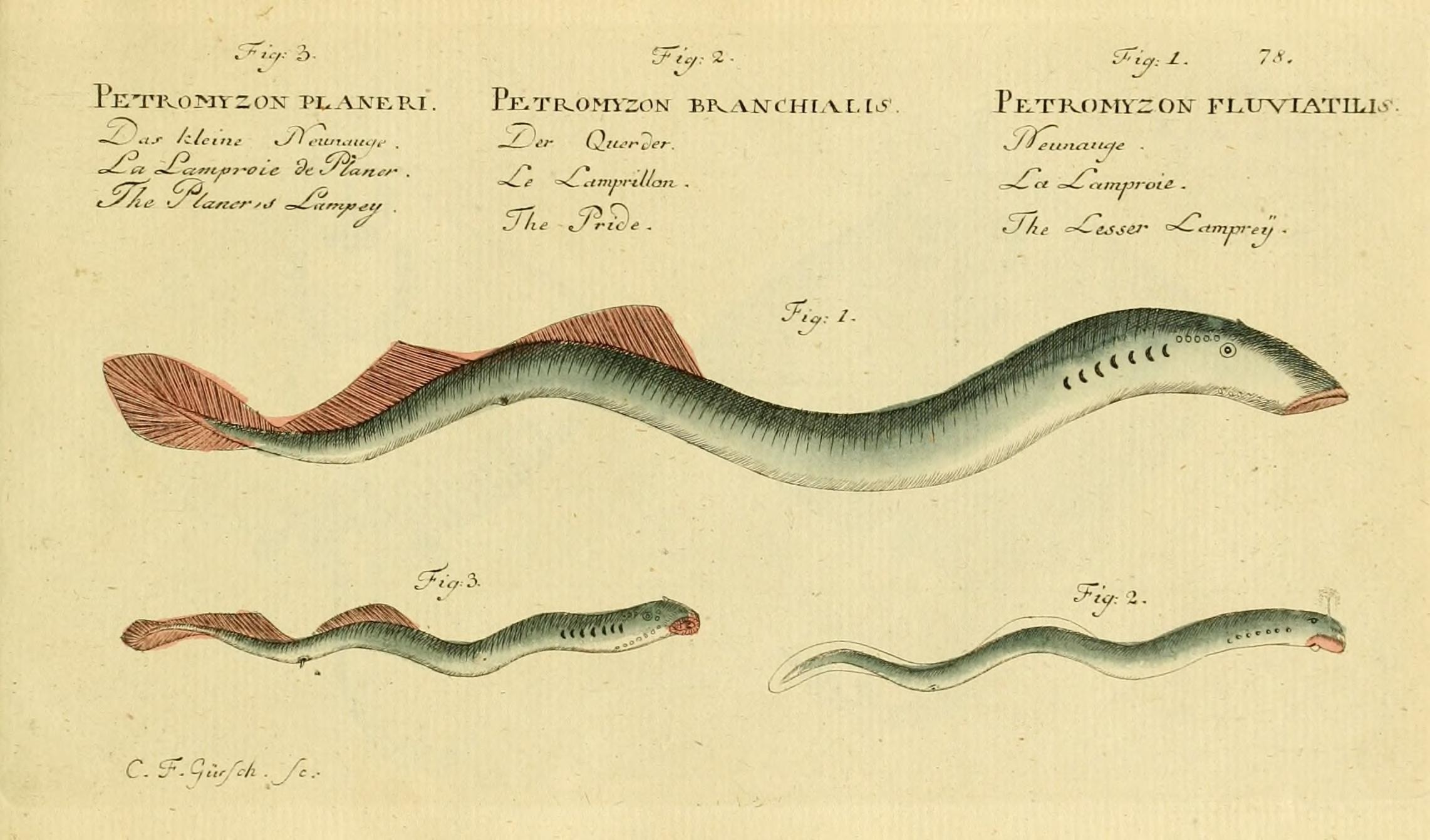 1. Lampetra fluviatilis syn. Petromyzon fluviatilis, 2. L. fluviatilis syn. P. branchialis, 3. L. planeri syn. P. planeri